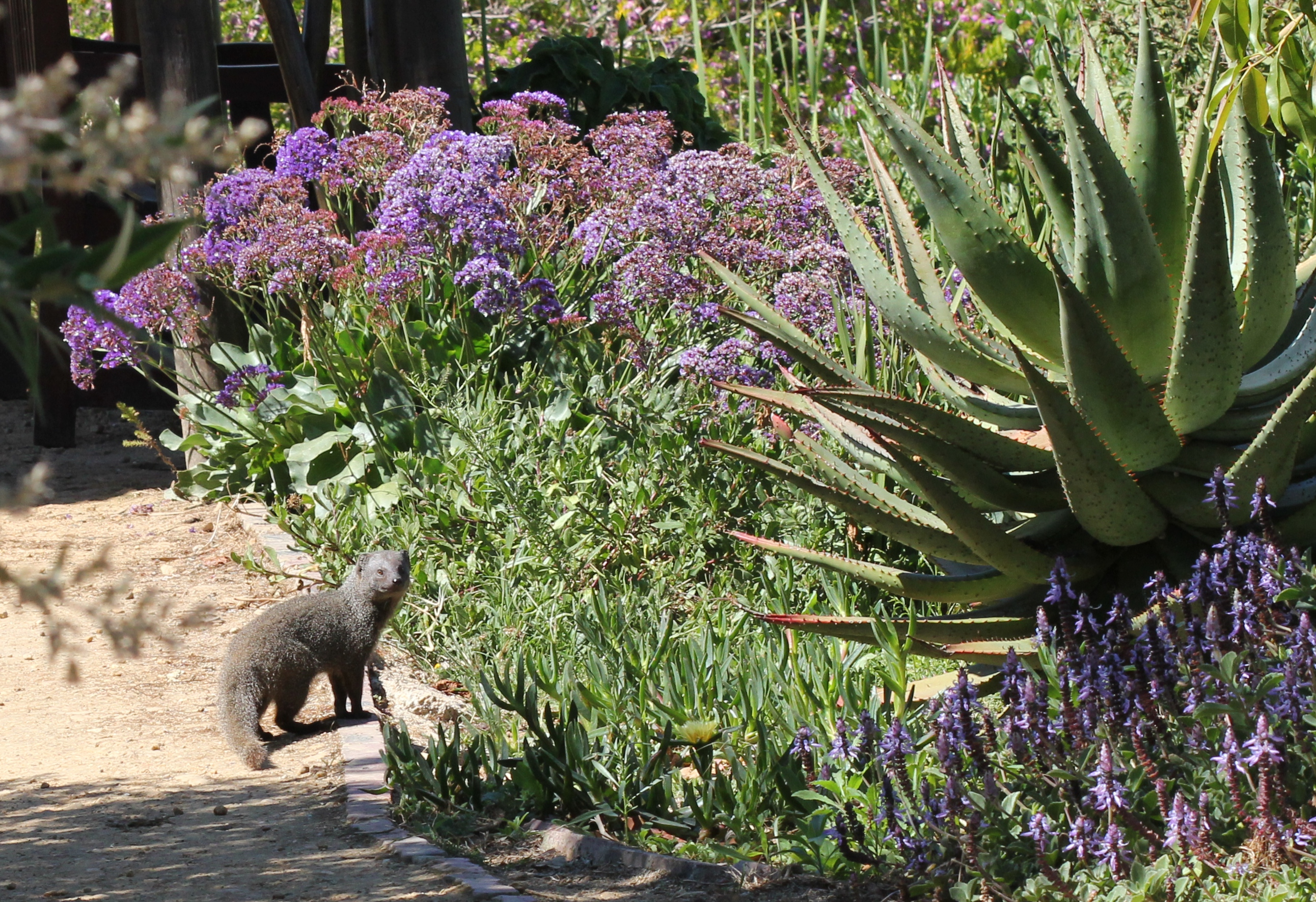 Herpestidae Galerella pulverulenta Small Grey Mongoose